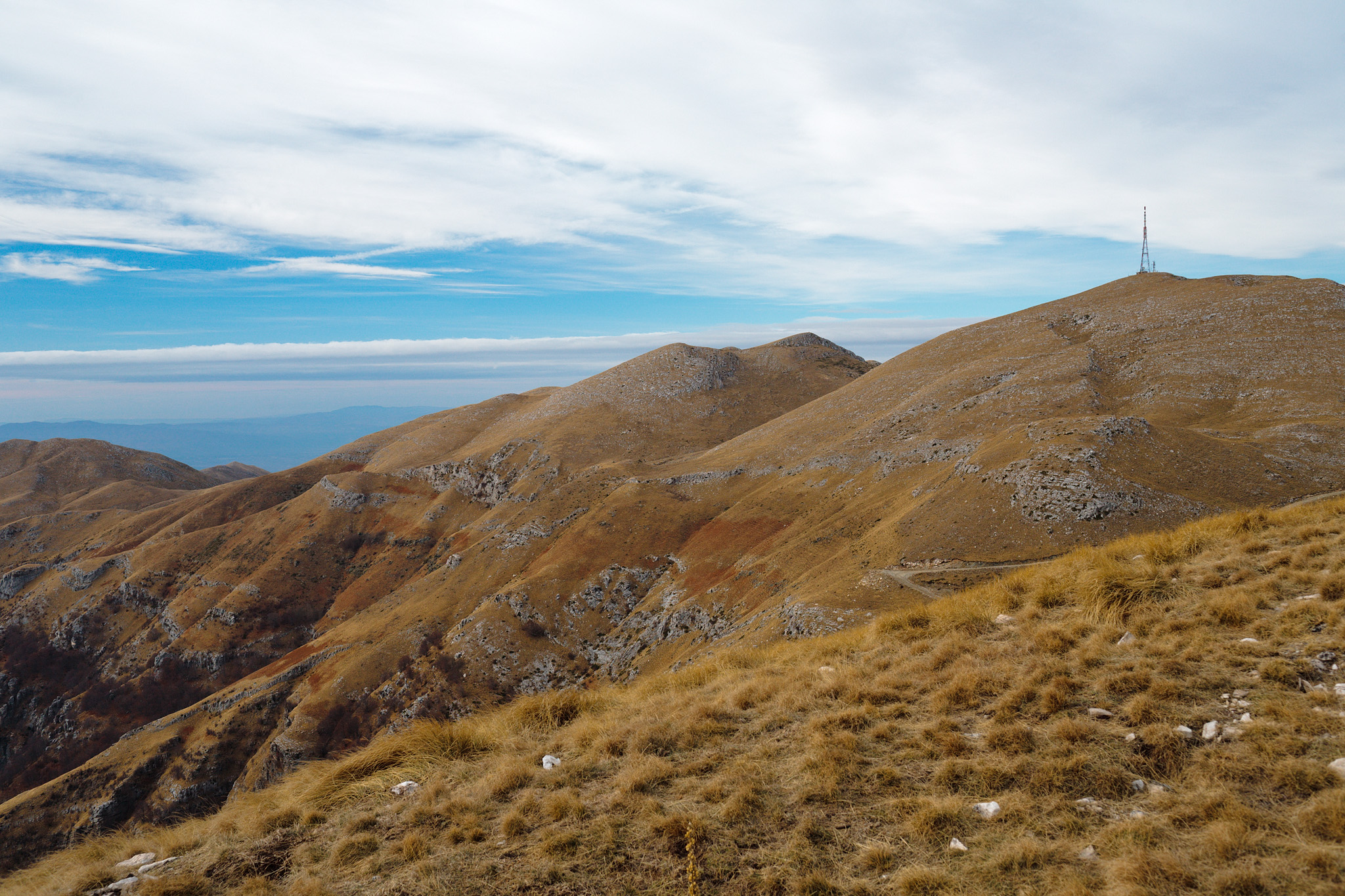 Mati summit in the Pangeo moutains, Greece